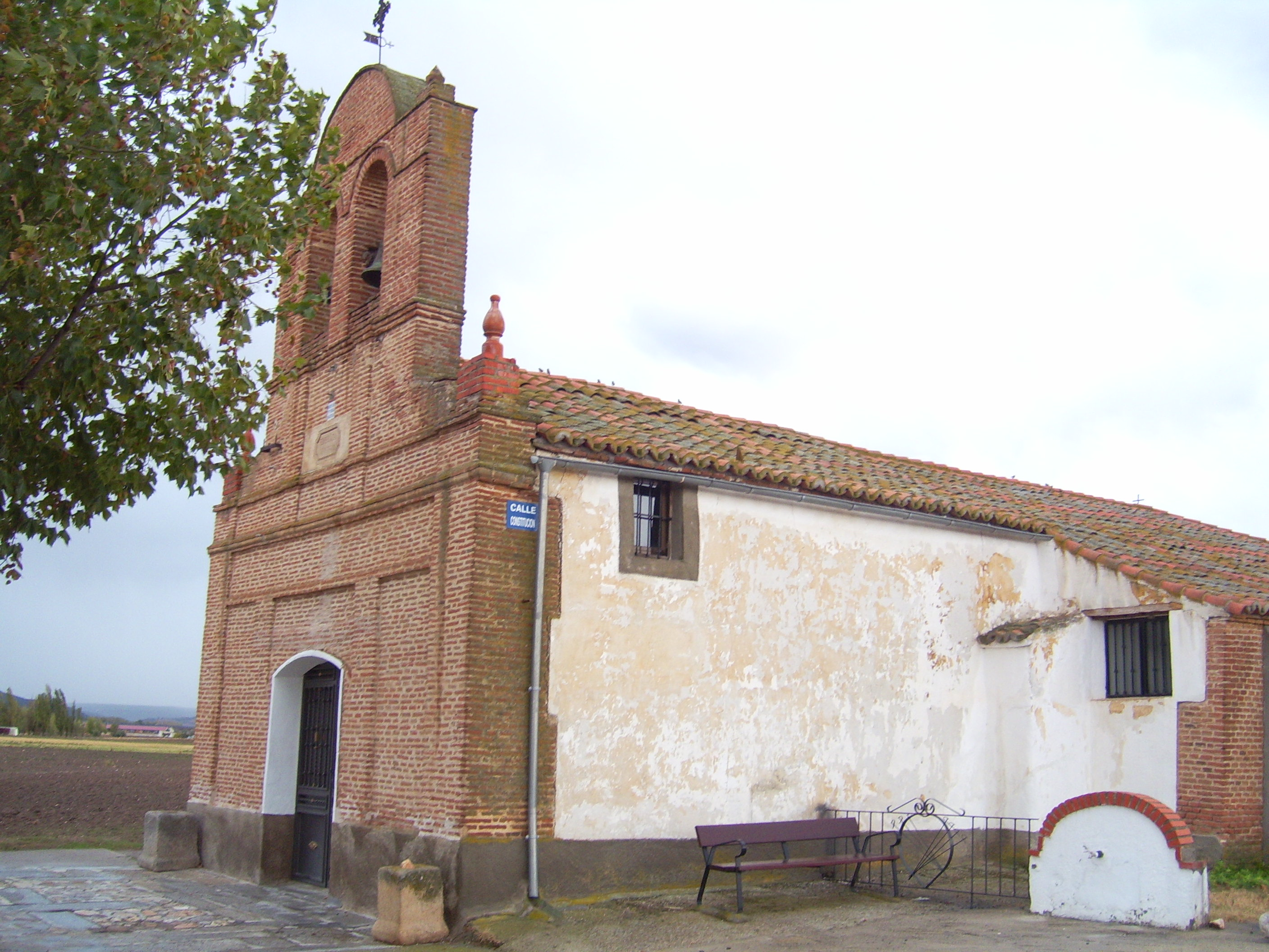 Church of Nuestra señora de las Angustias. Las Berlanas (Ávila, Spain)